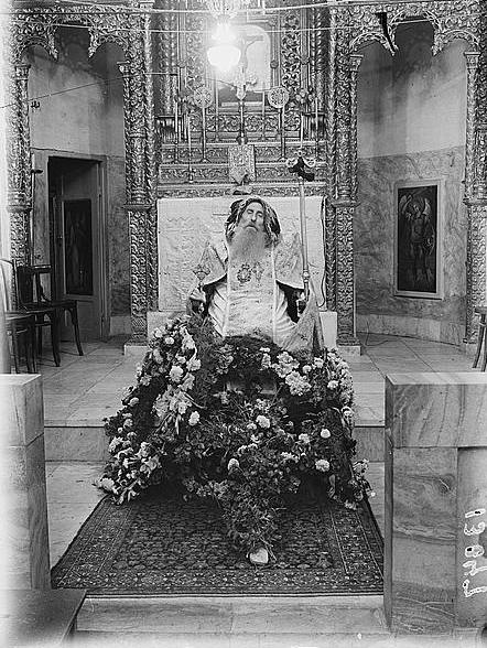 Syrian bishop's remains (funeral). Corpse seated in church, between 1940 and 1946